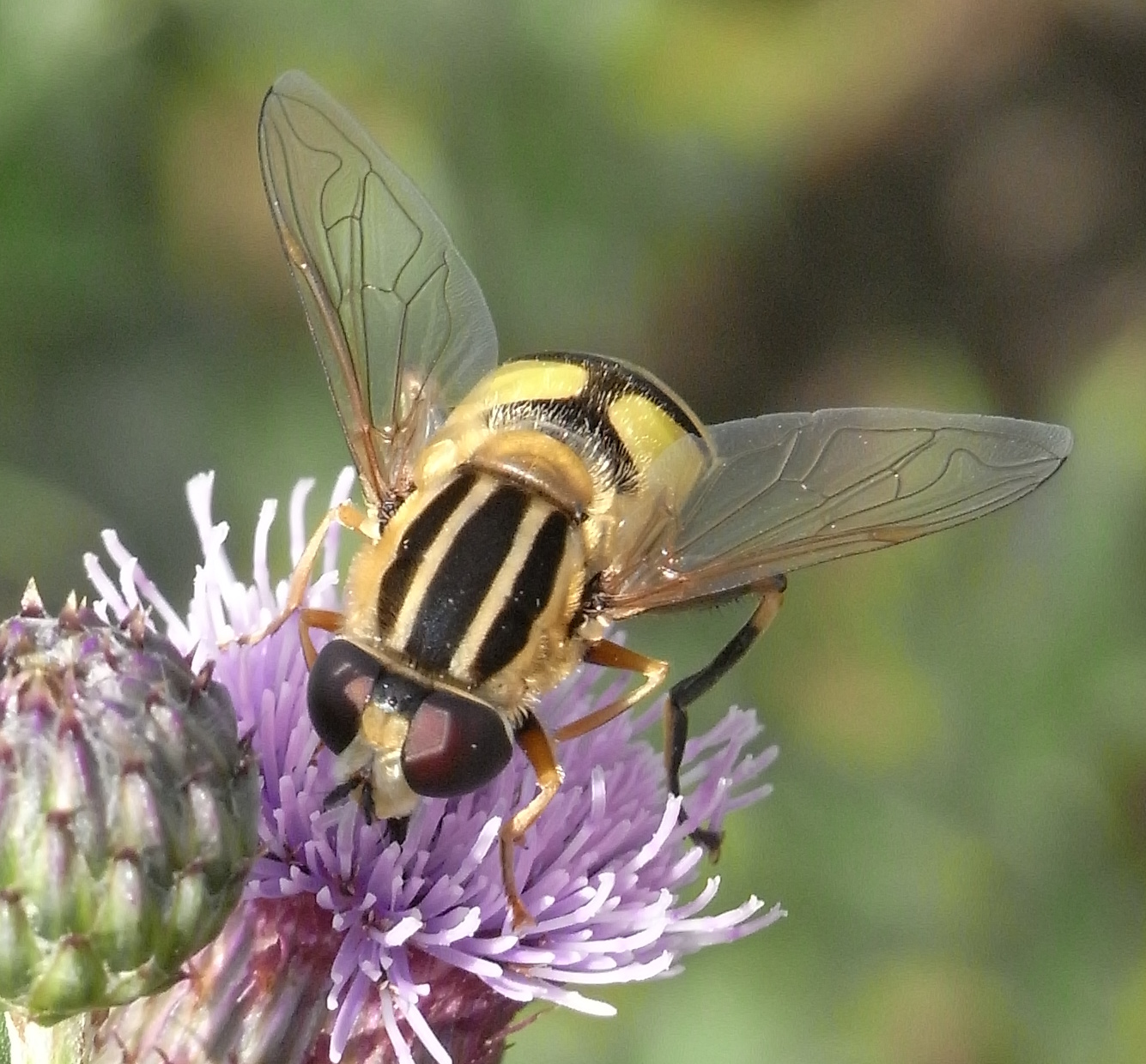 Hoverfly (Helophilus trivittatus).